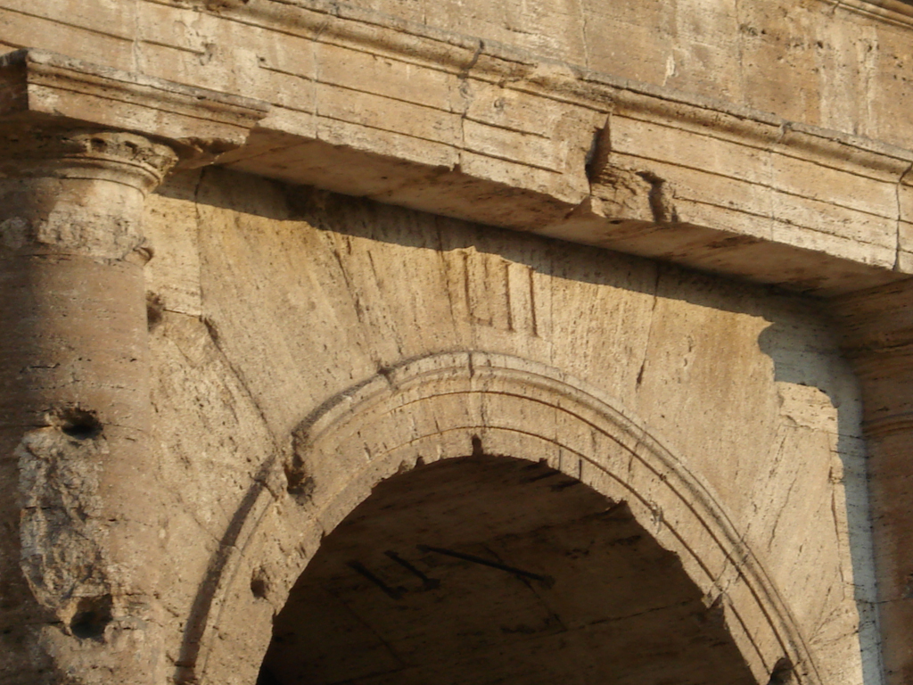 Image of Entrance LII of the Colosseum, Rome